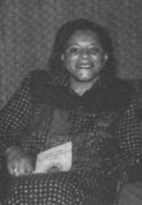 A young African-American woman, seated and smiling, wearing a print dress and holding a pamphlet in her lap.